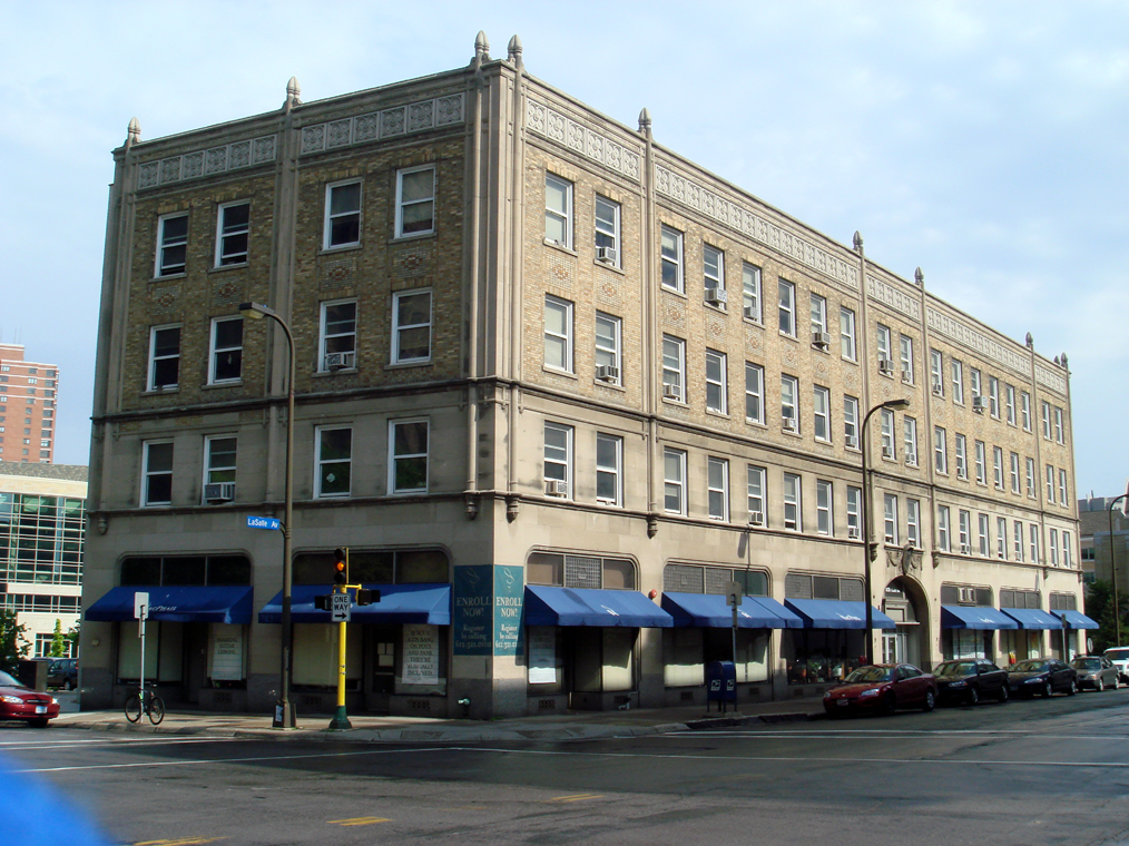 Longtime home of the MacPhail Center for Music in downtown Minneapolis, Minnesota.